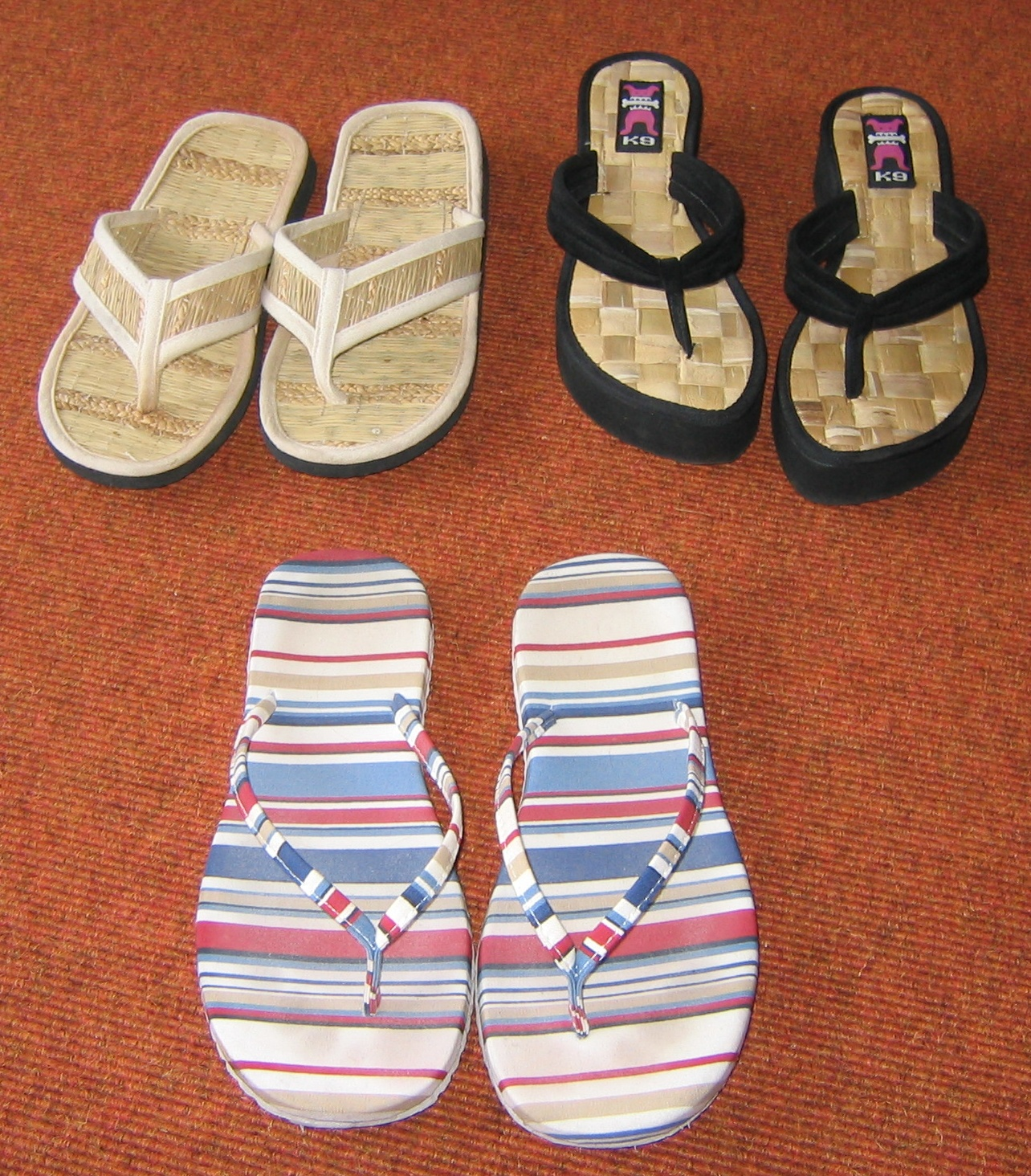 Several styles of flip-flops